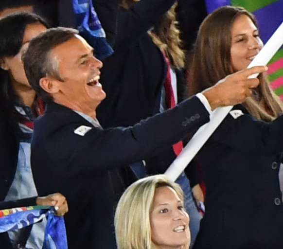 A scene from the Rio 2016 Olympic Games Opening Ceremony on Aug. 5 at Maracana Stadium in Rio de Janeiro, Brazil. U.S. Army photo by Tim Hipps, IMCOM Public Affairs